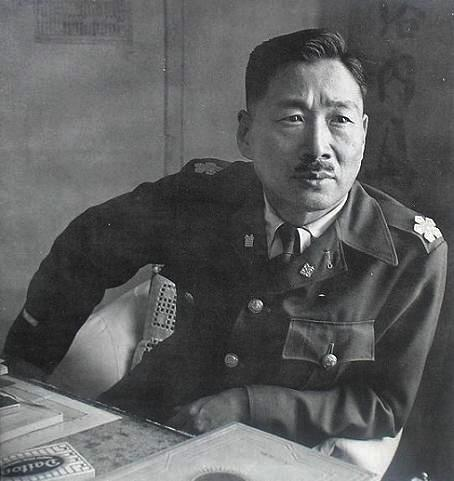 Prime Minister Jang Taek-Sang of South Korean, during his time as Chief of Police in the American Occupation of Korea (~1948)